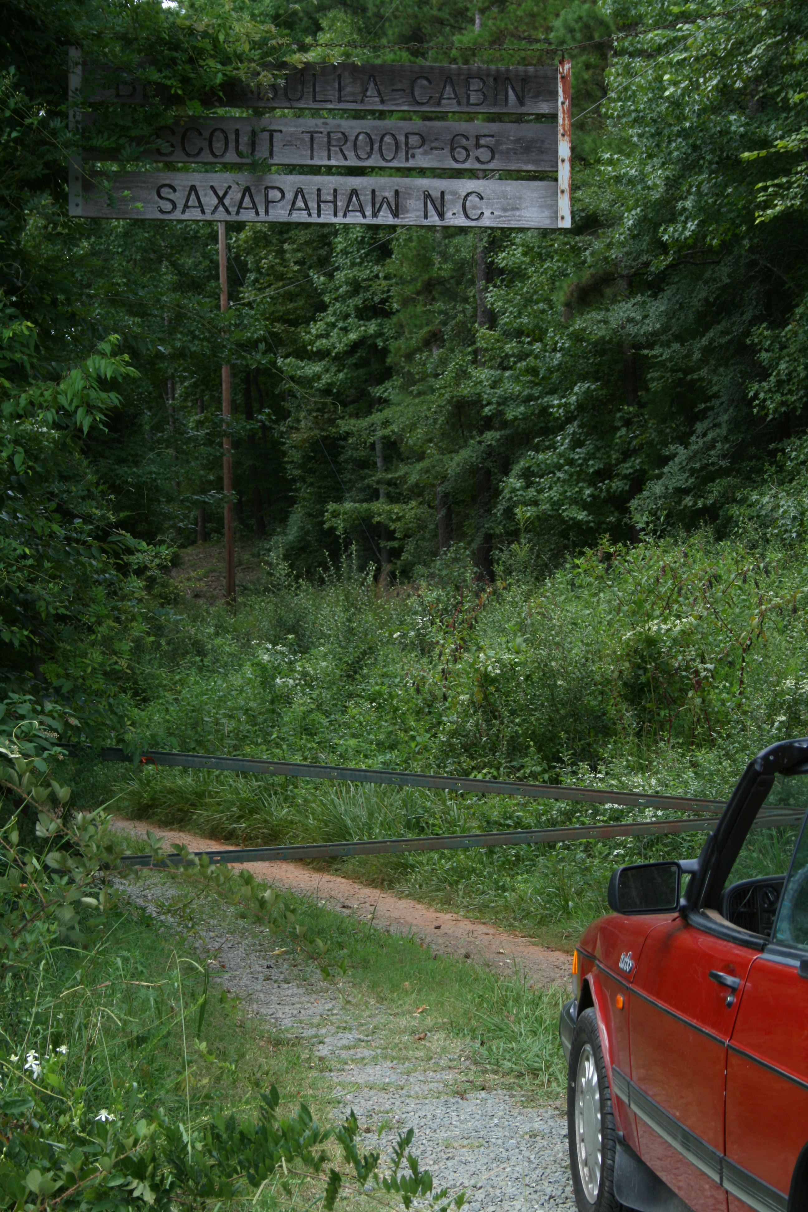 A 1989 Saab 900 Turbo convertible at the entrance to a boy scout trail in Saxapahaw, North Carolina.